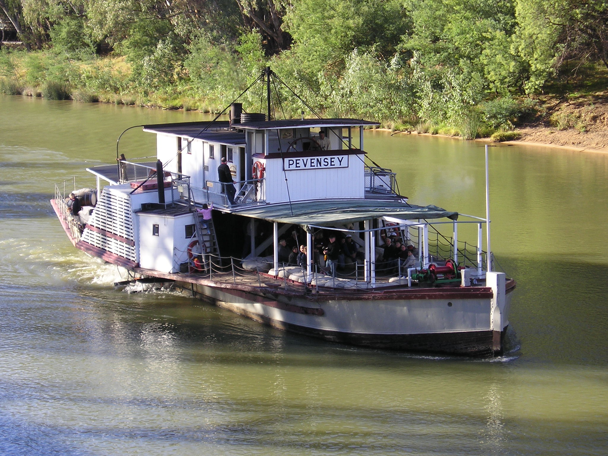 PS Pevensey Echuca 2006 Photo by Paul Dashwood